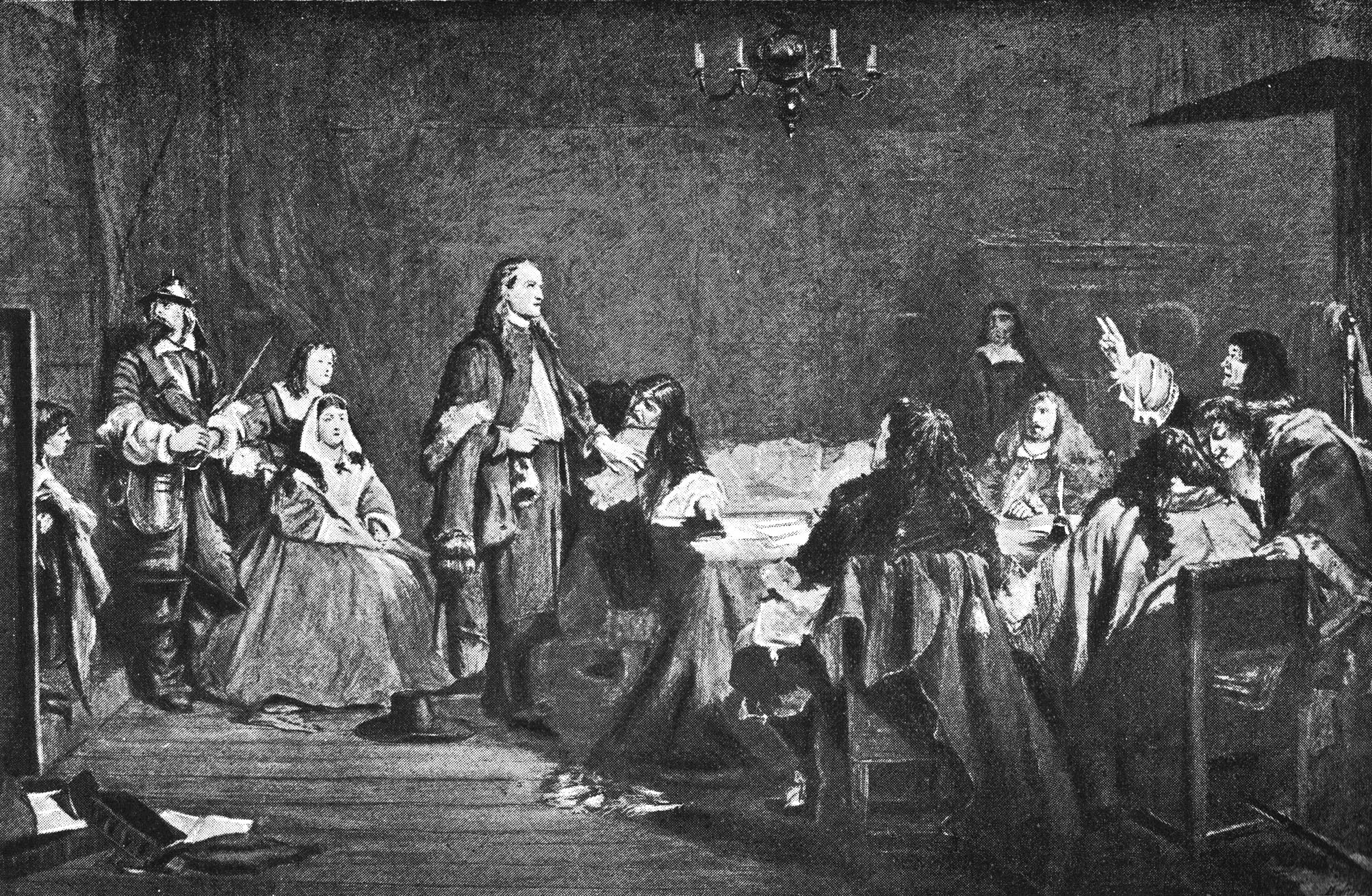 Depicts the scene at Holker Hall, in 1663, when the oath was tendered to George Fox by the justices of the neighbourhood. This work was exhibited at the Royal Academy in 1864, and won for the artist the gold medal for historical painting. The idea and commission for the picture were given in 1863 by the late Mr. John Stewart, and we are informed that Mr. Pettie was at the greatest pain to secure the correctness of the costumes and details. George Fox is the prominent figure, Margaret Fell is sitting. The justice at the end, stretching out his hand, is Justice Rawlinson. (Whitten, p. 7-8)